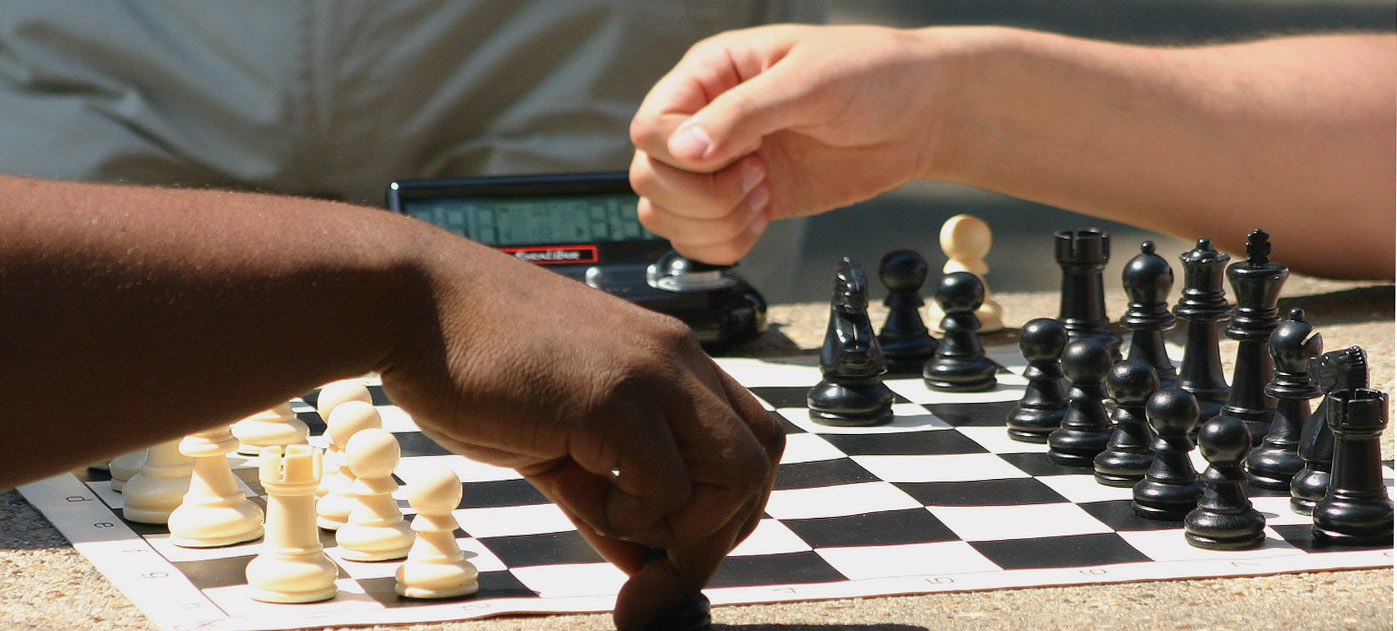 The Days and Knights of Tom Murphy Chess players and hustlers come from all over to be part of Dupont Circle's famed scene.